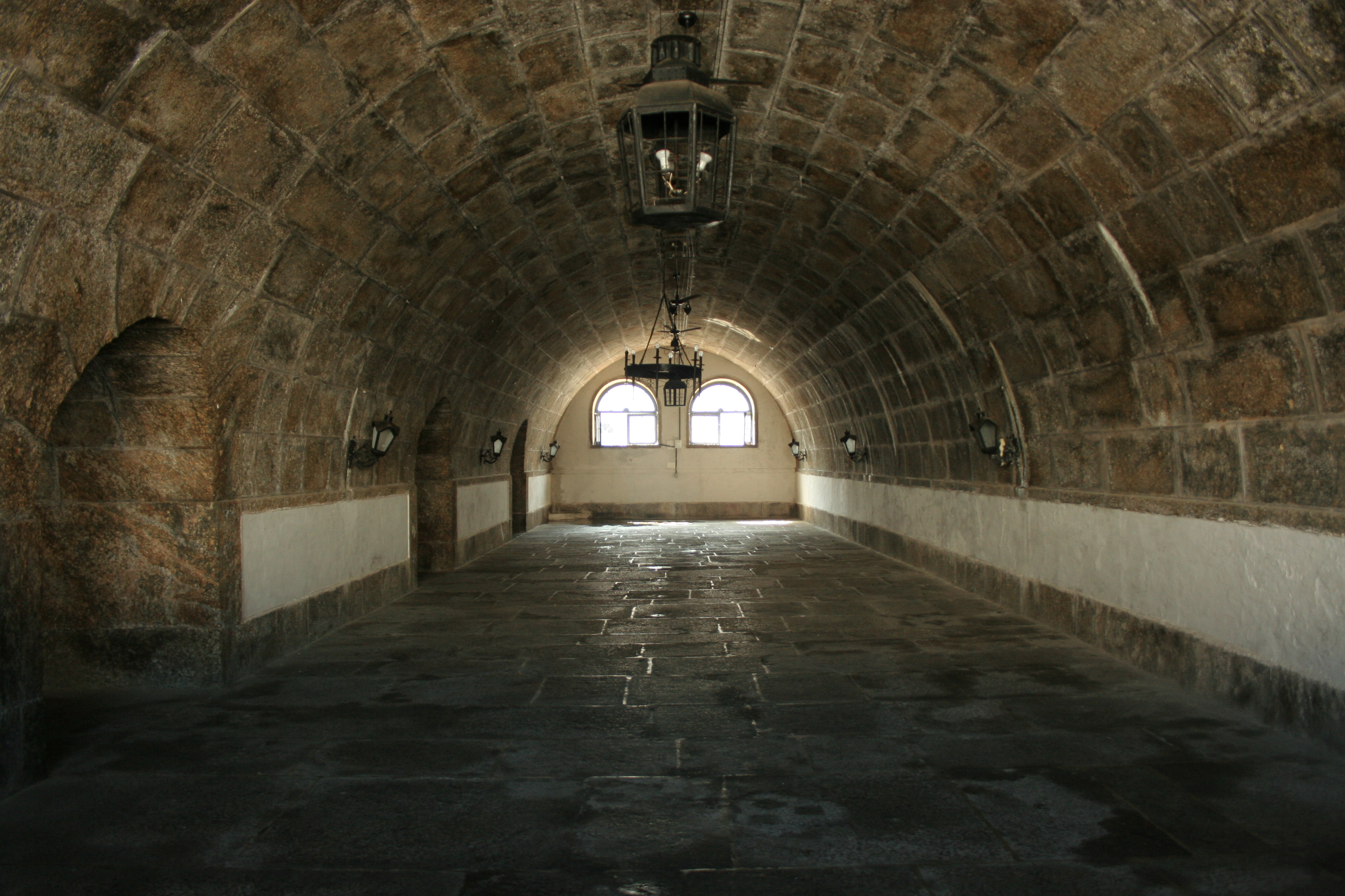 Storage room of the Santa Cruz Fortress in Niterói, Brazil